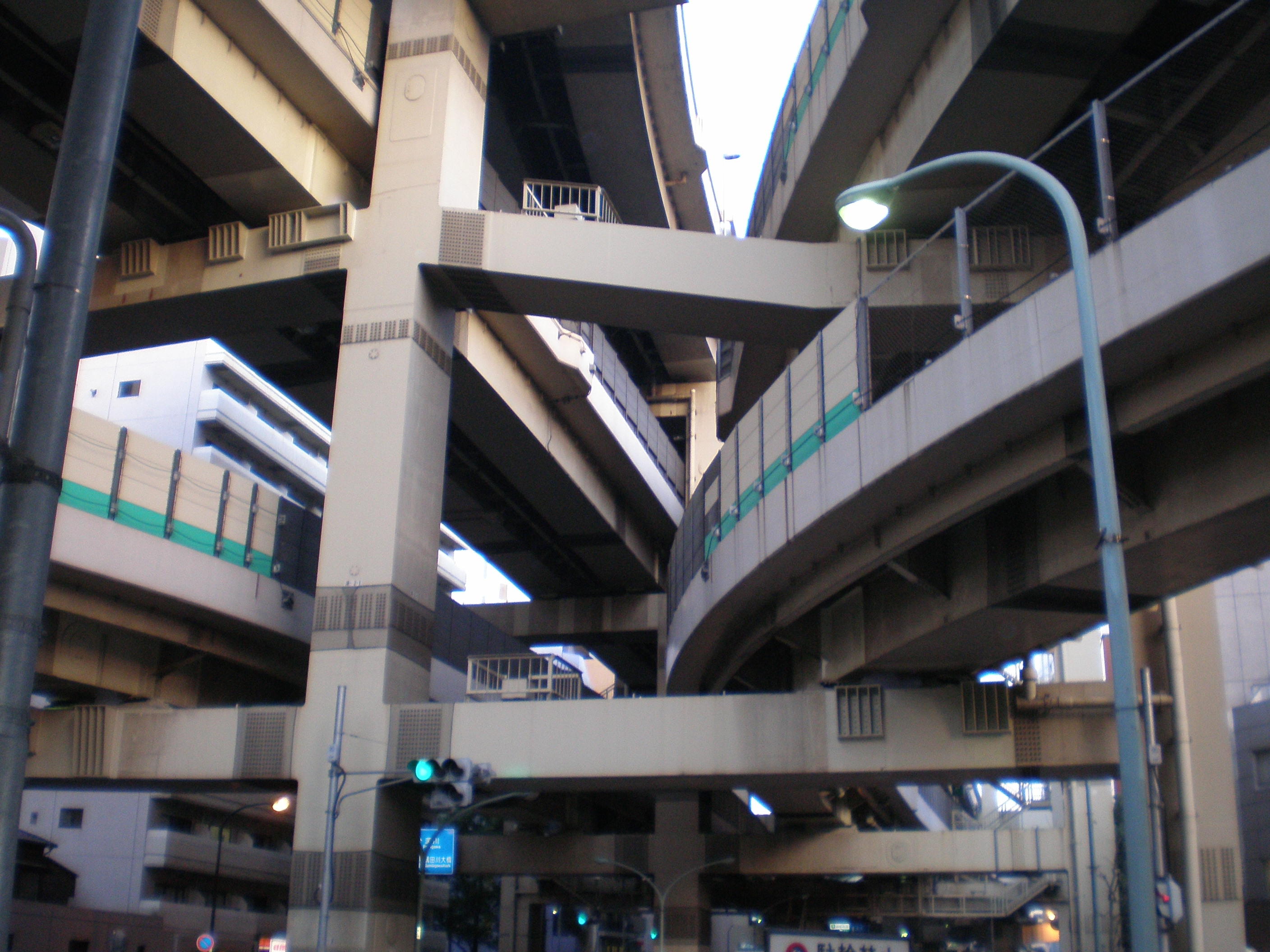 Hakozaki Interchange (Junction Terminal) in Tokyo, Japan